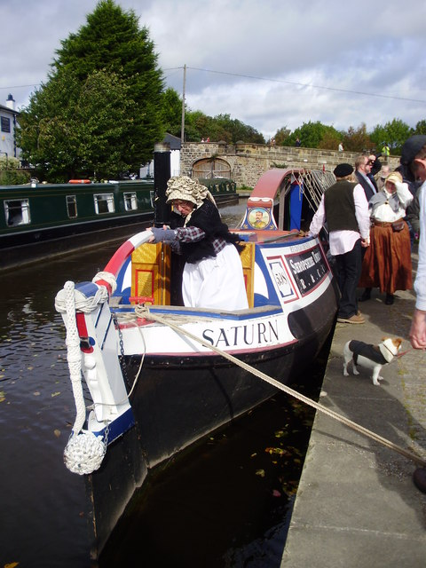 Saturn Ladies in traditional costume aboad "Saturn" at Trevor Basin. Saturn is a unique canal narrowboat. She is the last horse-drawn Shropshire Union Canal Fly-boat in the World – originally built to travel non-stop, day and night, carrying perishable goods. Over 100 years old, she has been fully restored to her former glory. This was taken during the celebrations for Froncysyllte aqueduct becoming a World Heritage Site.